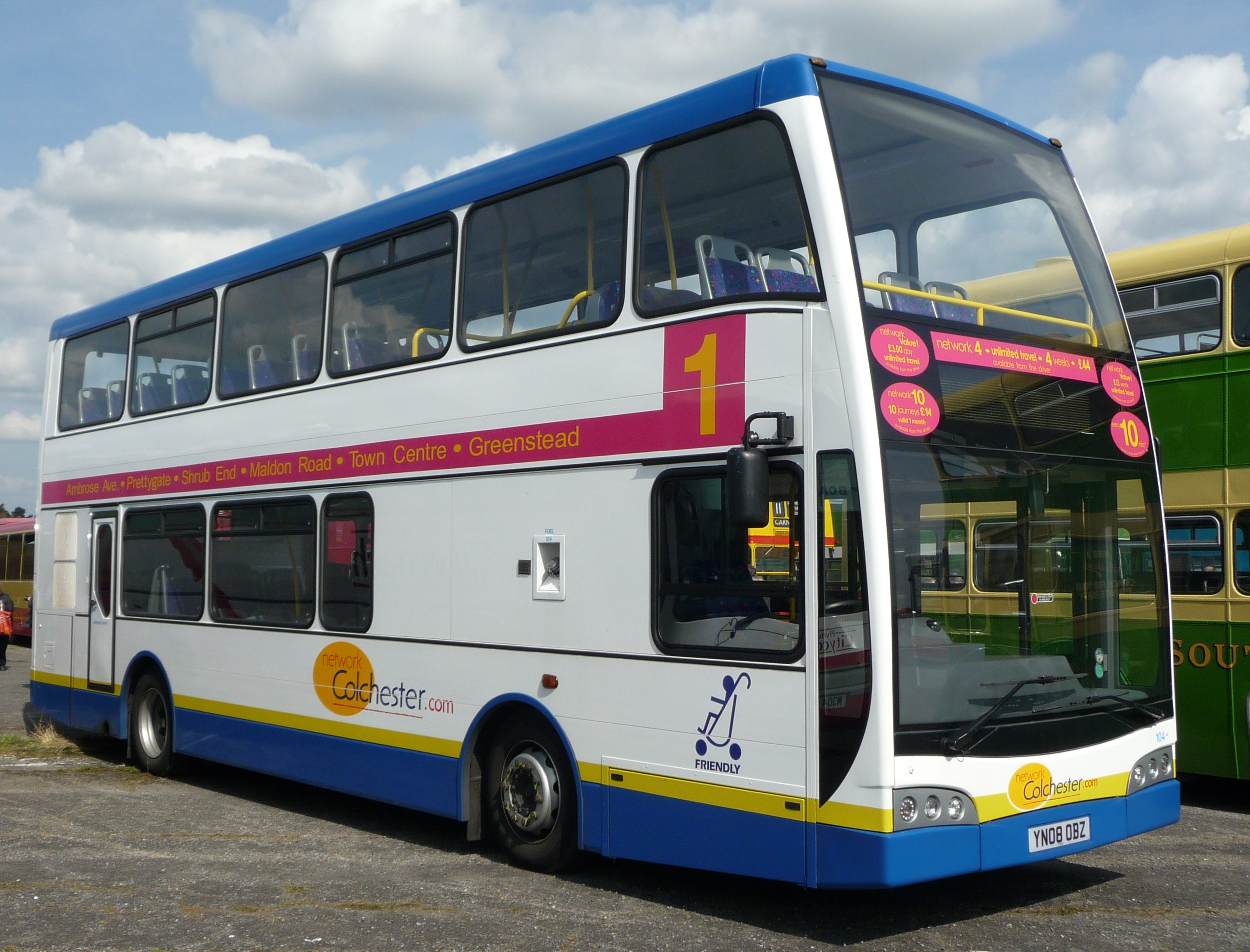 Network Colchester's 104 (YN08 OBZ), a Scania N230UD/Darwen Olympus, at the 2009 Cobham bus rally at Wisley Airfield.